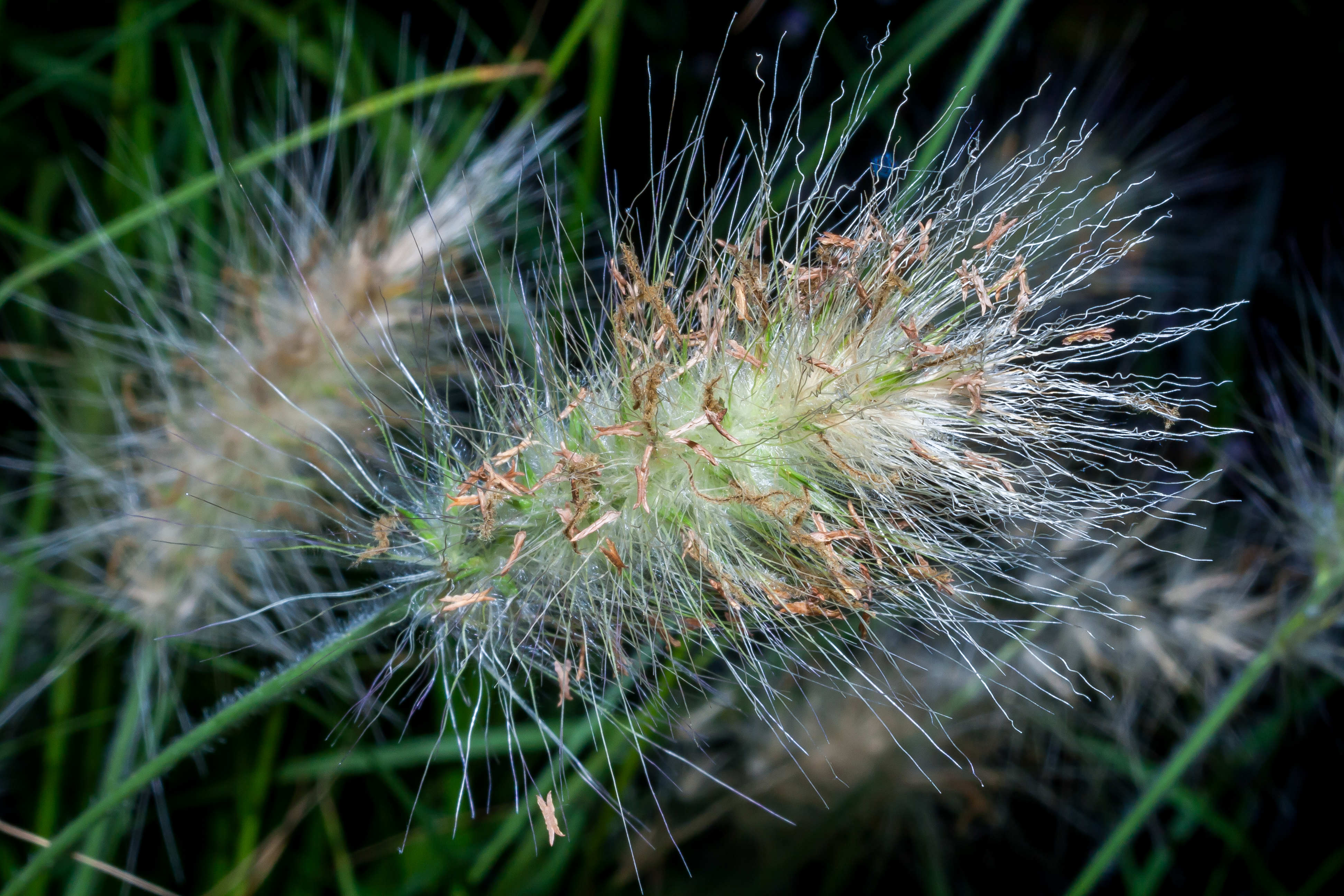 Pennisetum Villosum. Taken during Tatton Park Flower Show 2009